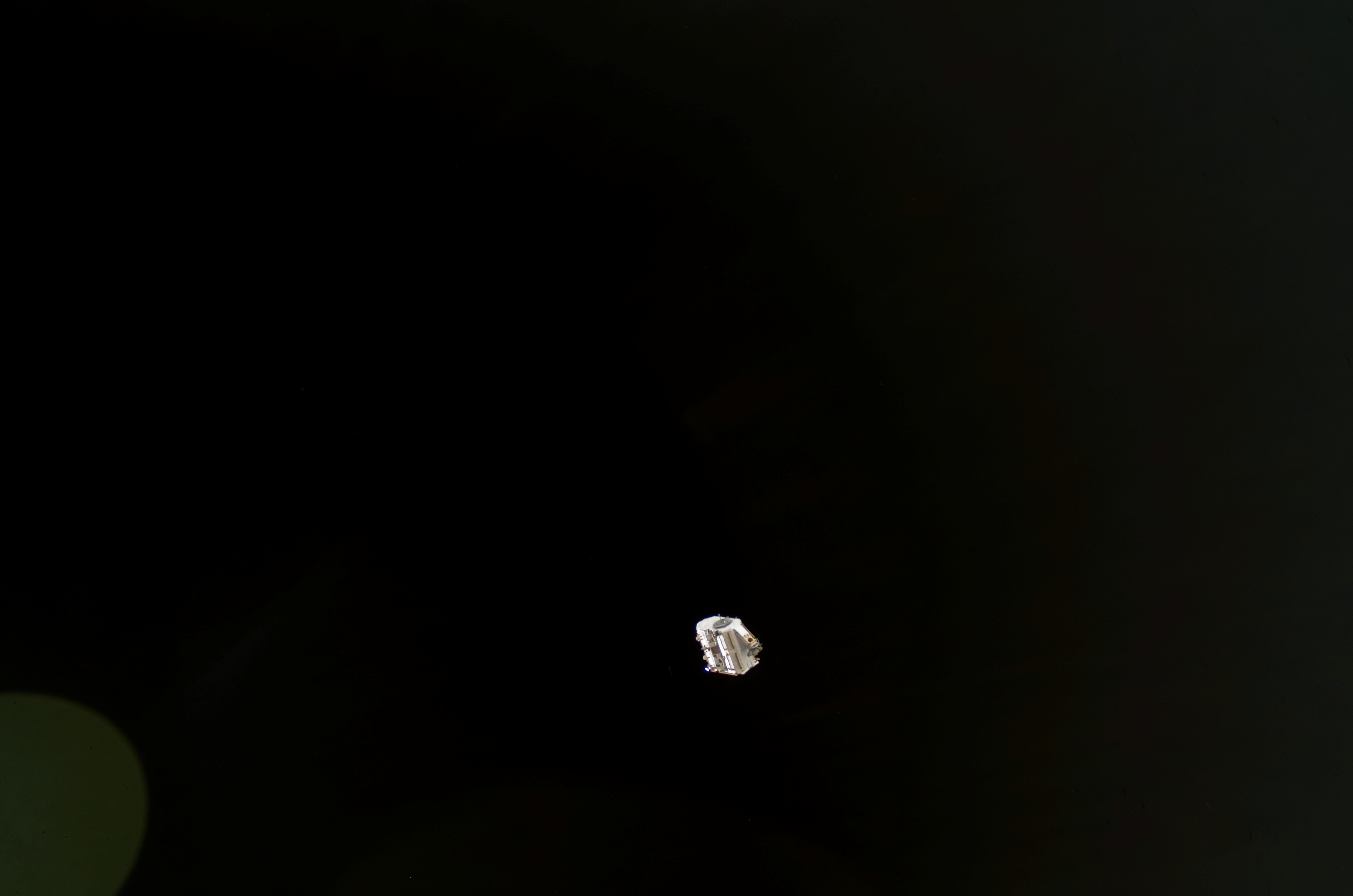 An Early Ammonia Servicer (EAS) moves away from the International Space Station after it was jettisoned by astronaut Clay Anderson (out of frame), Expedition 15 flight engineer, during today's session of extravehicular activity (EVA). The EAS was installed on the P6 truss during STS-105 in August 2001, as an ammonia reservoir if a leak had occurred. It was never used, and was no longer needed after the permanent cooling system was activated last December.